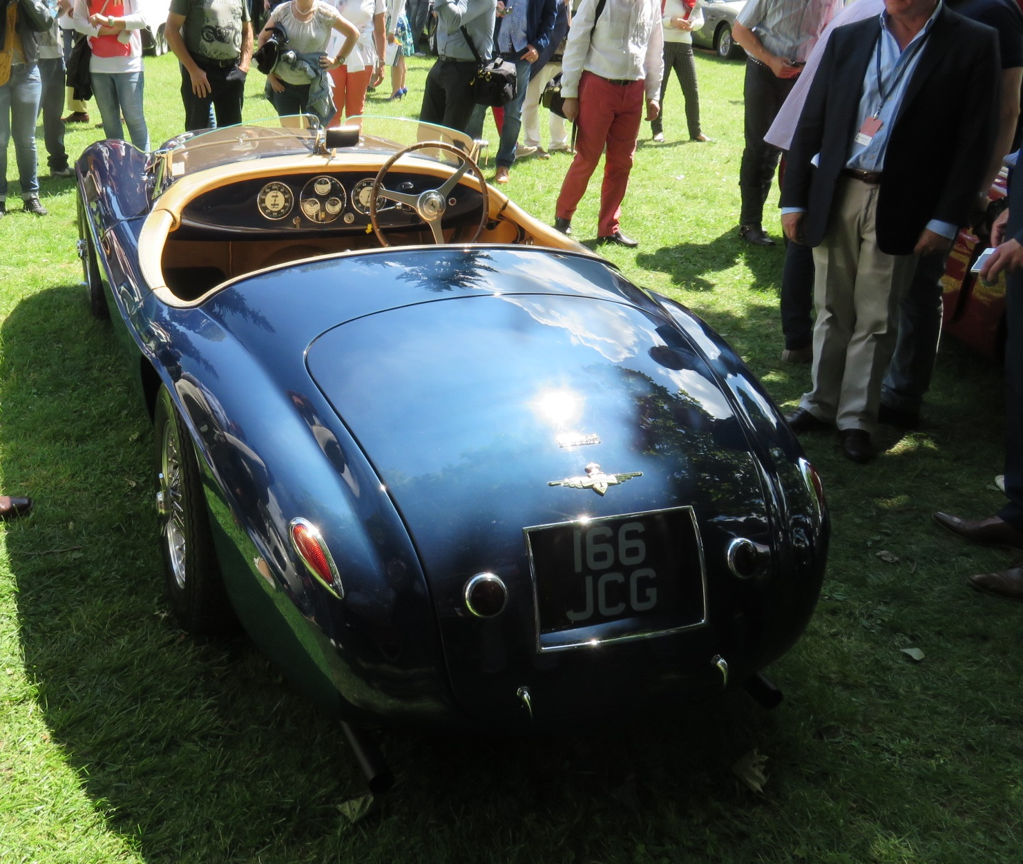 Image resized